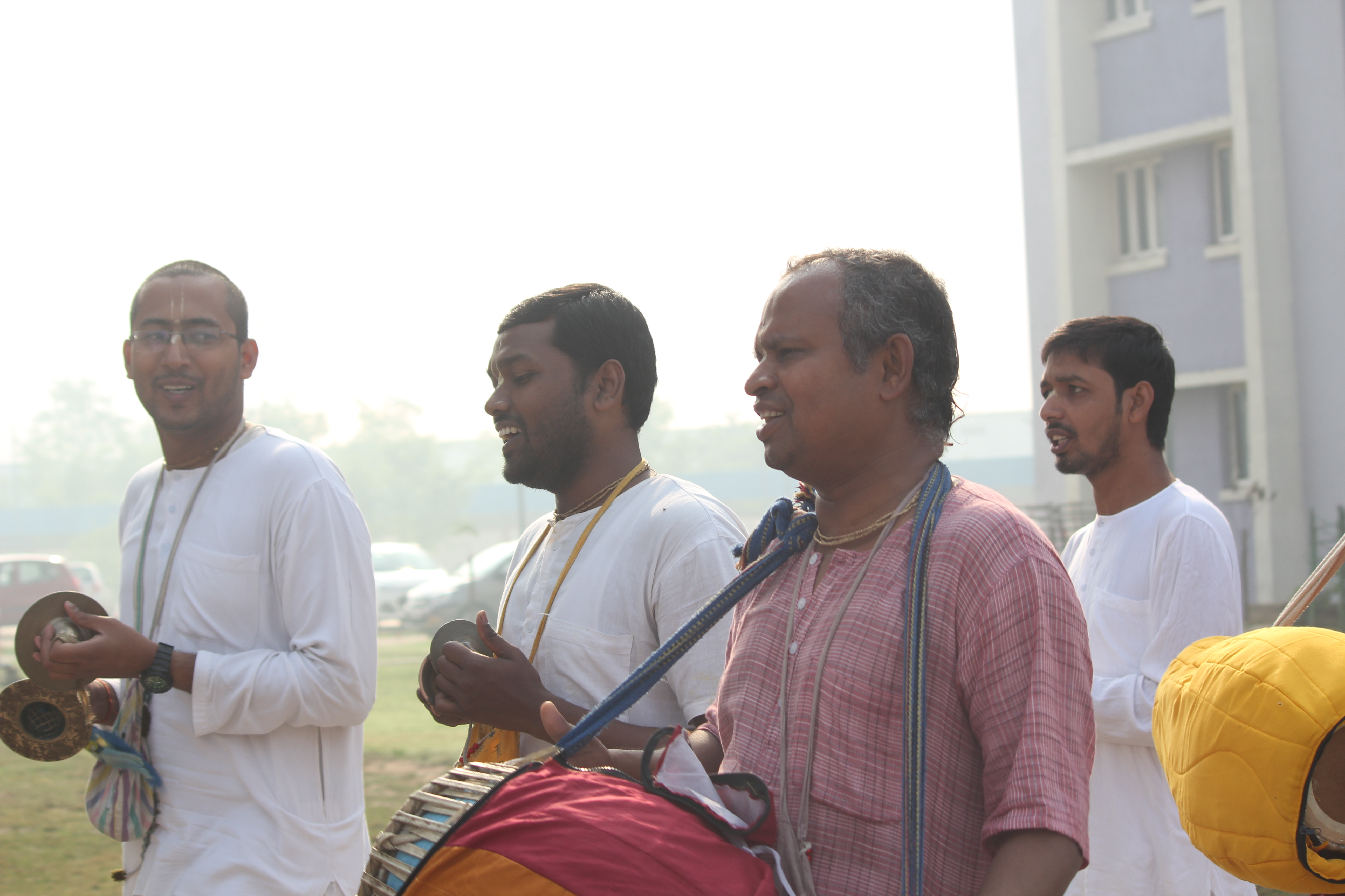 Kirtan This photo has been taken in the country: India